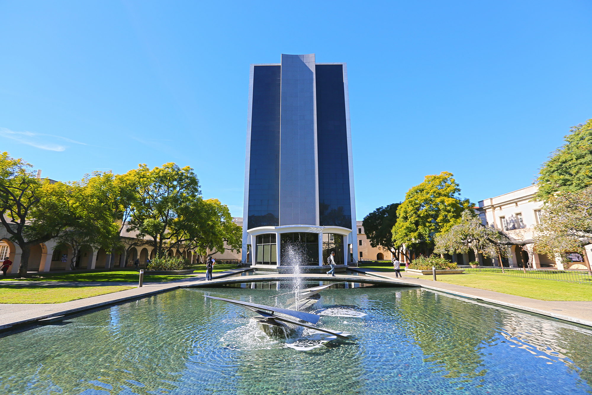 Robert A. Millikan Memorial Library — at Caltech, Pasadena. The tallest building on the Caltech campus.